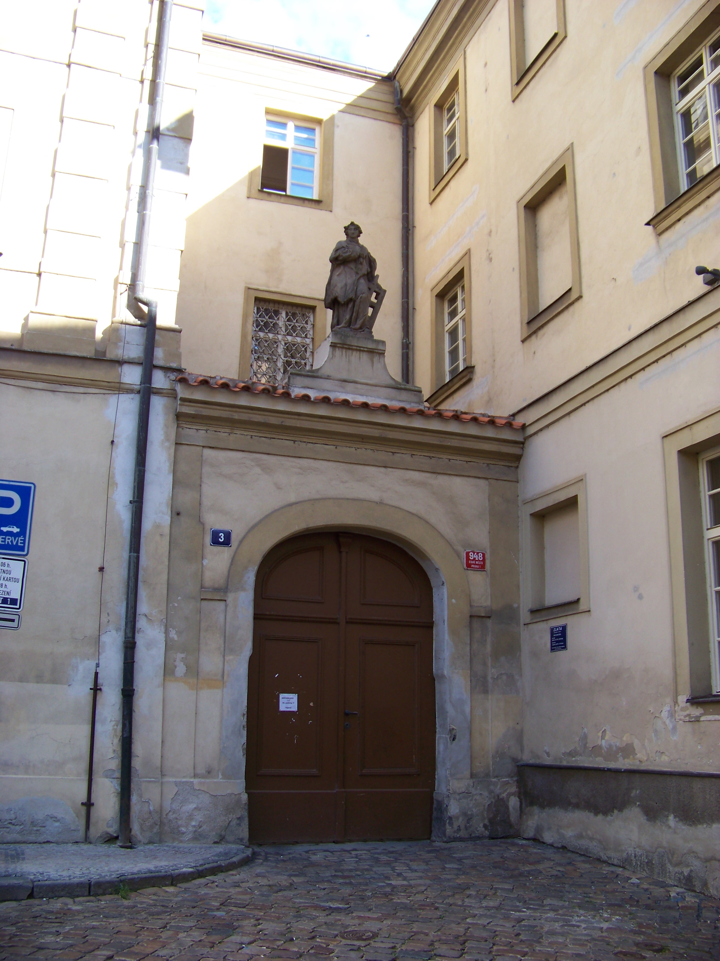 Prague-Old Town.Anenské náměstí (Anne Square), entry gate to the Anne Monastery and to the Zlatá street.